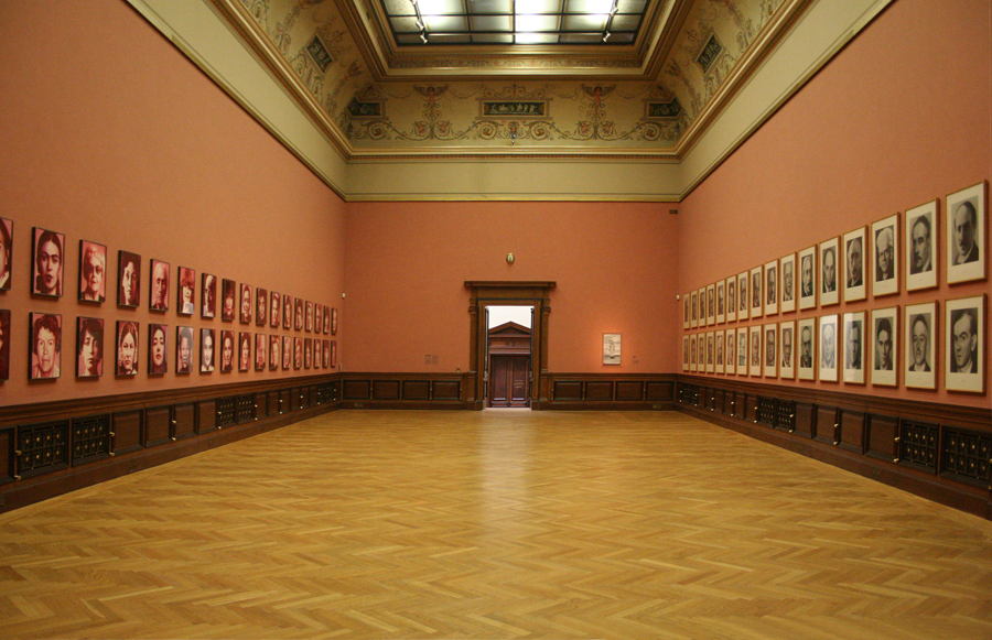 Installation "48 Portraits" by Gottfried Helnwein and "48 Portraits" by Gerhard Richter, "Undeniable me", Galerie Rudolfinum, Prague, 2011